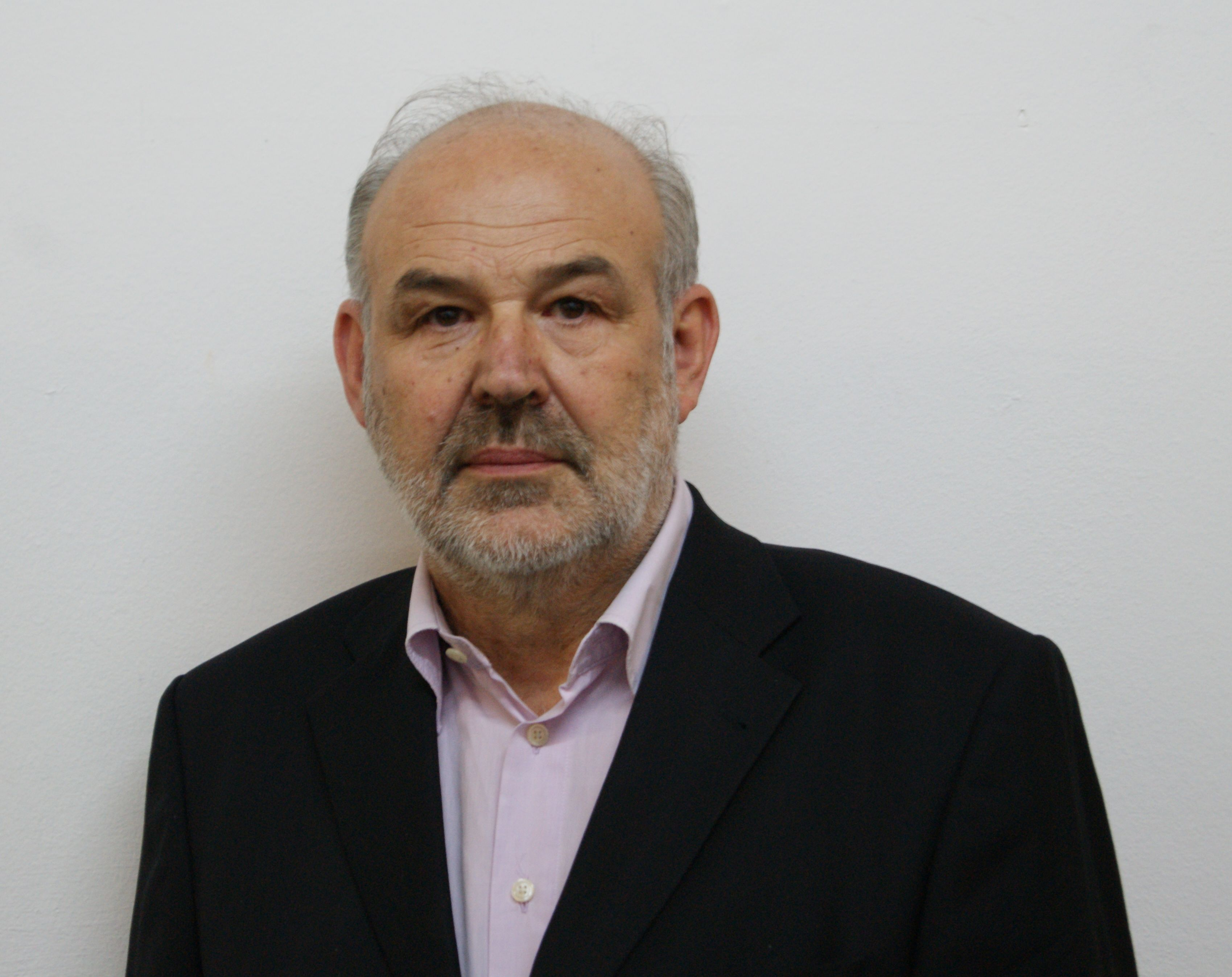 Werner Bundschuh during a lecture on neo-nazism and racism in Vorarlberg at the youth work in Lustenau, Vorarlberg, Austria. Werner Bundschuh (* 1951) is a historian and teacher.